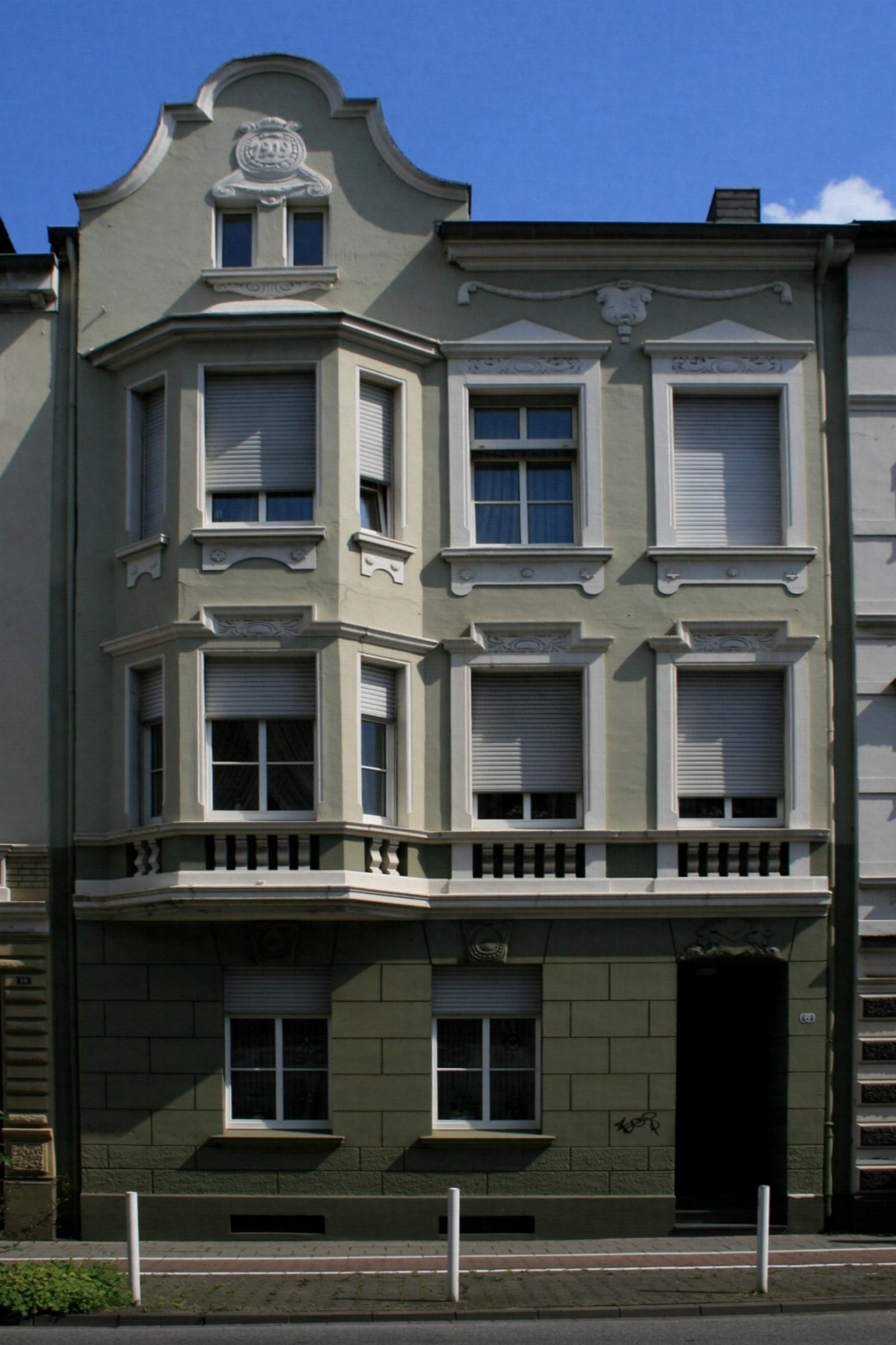 Cultural heritage monument No. B 057 in Mönchengladbach